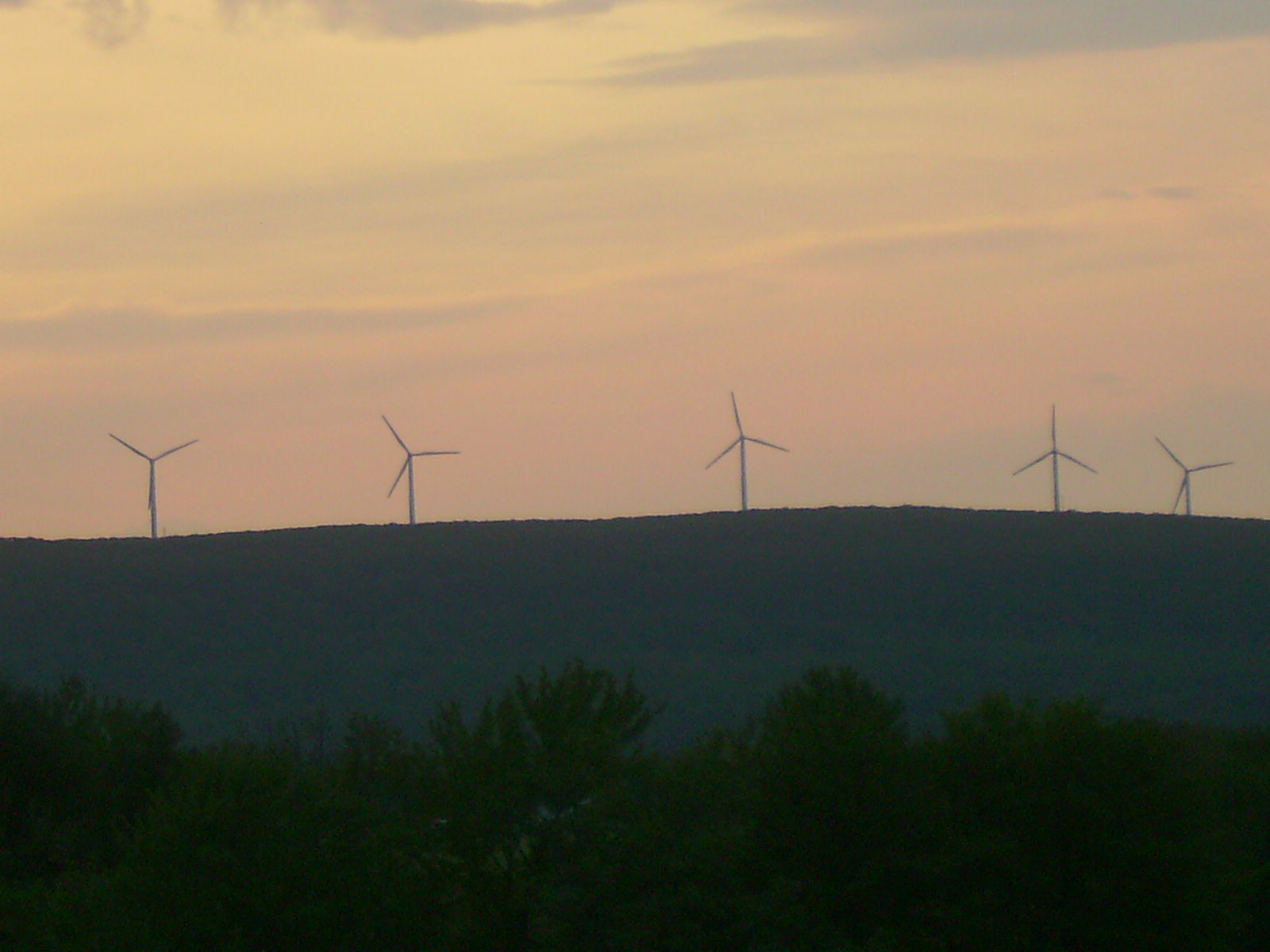 A sunset view of the wind turbines on High Knob in the Moosic Mountains in the Poconos Region of Pennsylvania.